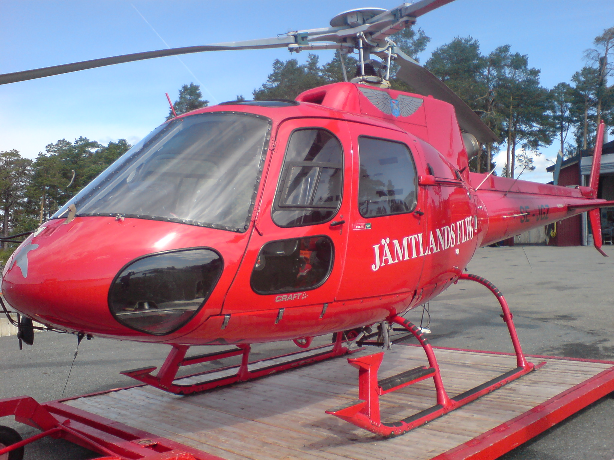 Eurocopter/Aerospatiale AS350 B2 Ecureuil at Göviken base in Östersund, Sweden, from Jämtlands Flyg AB operating out of Östersund, Jämtland, Sweden